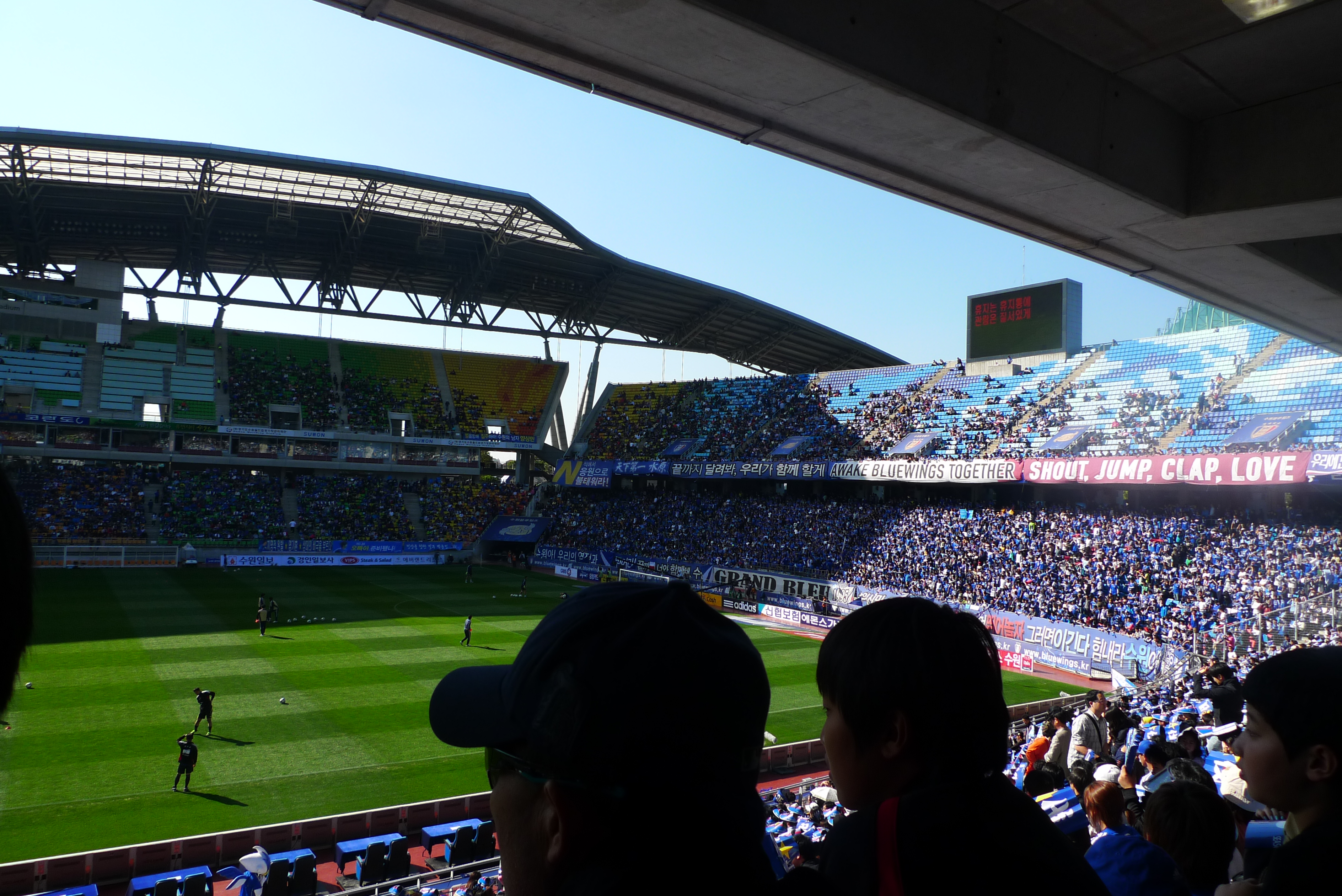 Right side of Suwon World Cup Stadium. (Taken during the match between Suwon and Seoul)